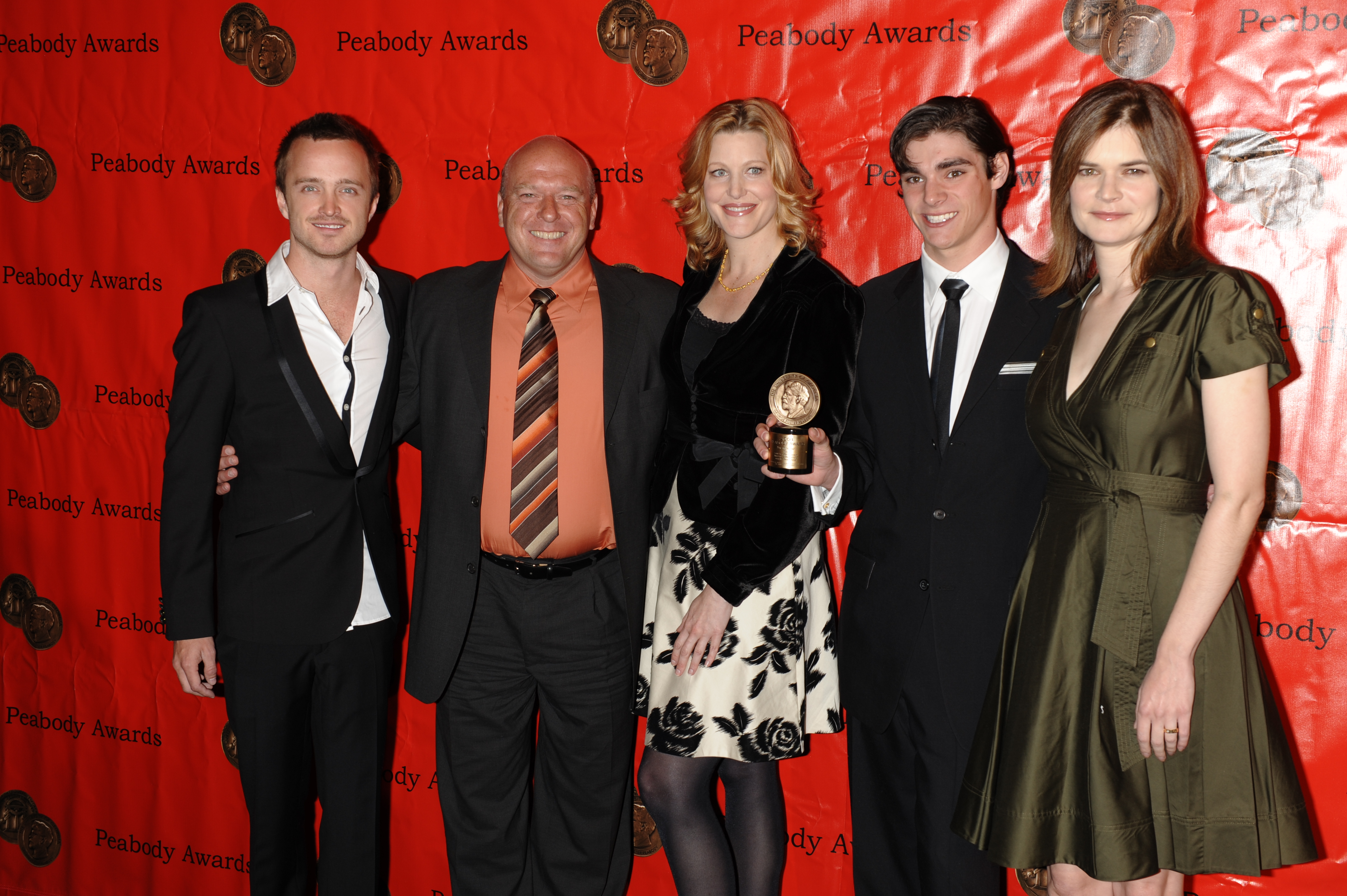 PHOTO CREDIT: ANDERS KRUSBERG / PEABODY AWARDS Aaron Paul, Dean Norris, Anna Gunn, RJ Mitte and Betsy Brandt 68th Annual Peabody Awards Luncheon Waldorf=Astoria Hotel New York, NY USA May 18, 2009